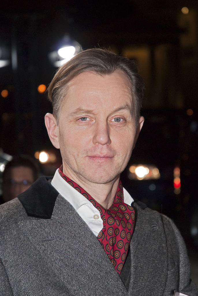 Max Raabe, German musician Volkswagen People’s Night 2008